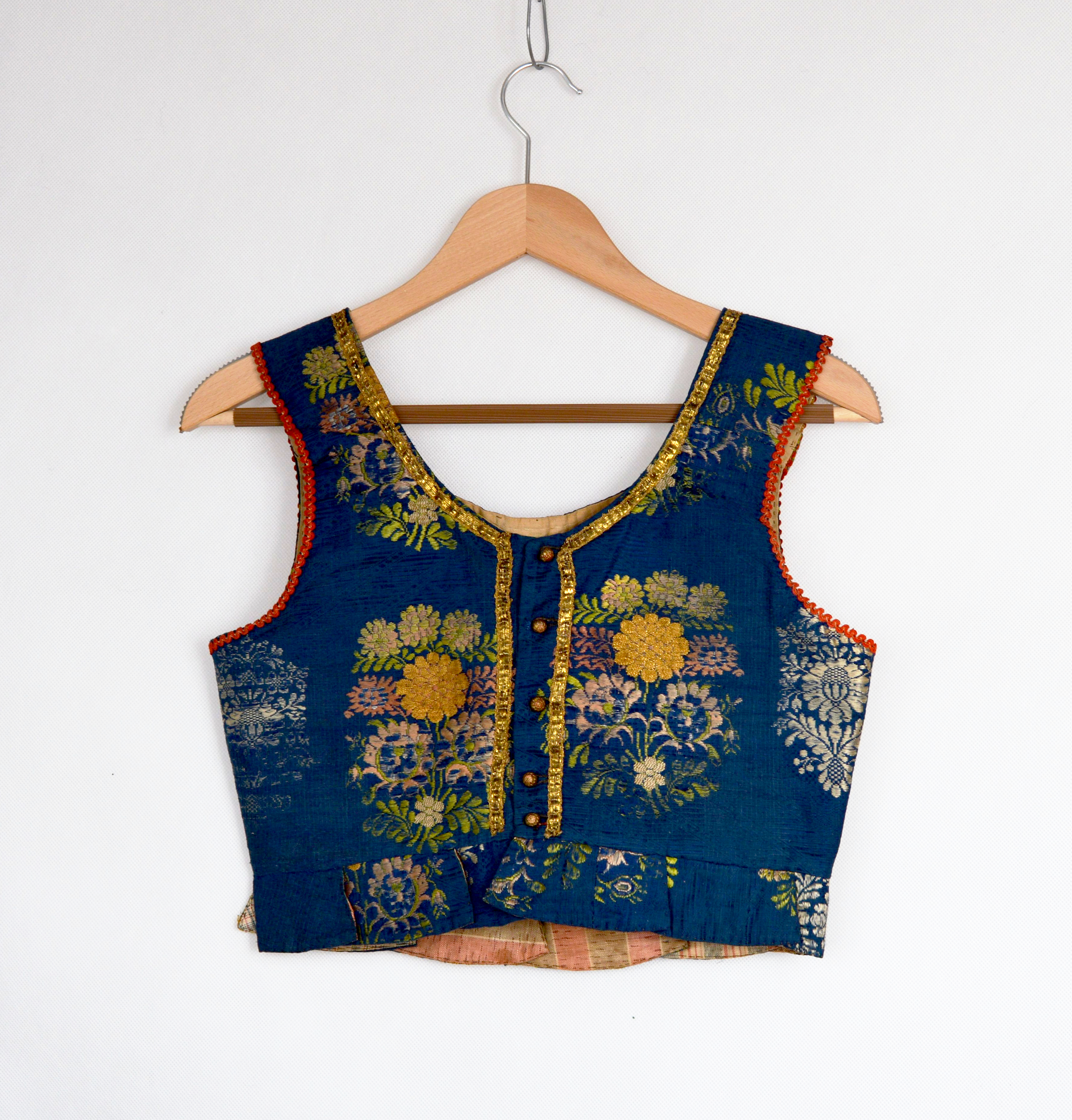 Front of Podhale style blue bustier, Tatra Museum in Zakopane